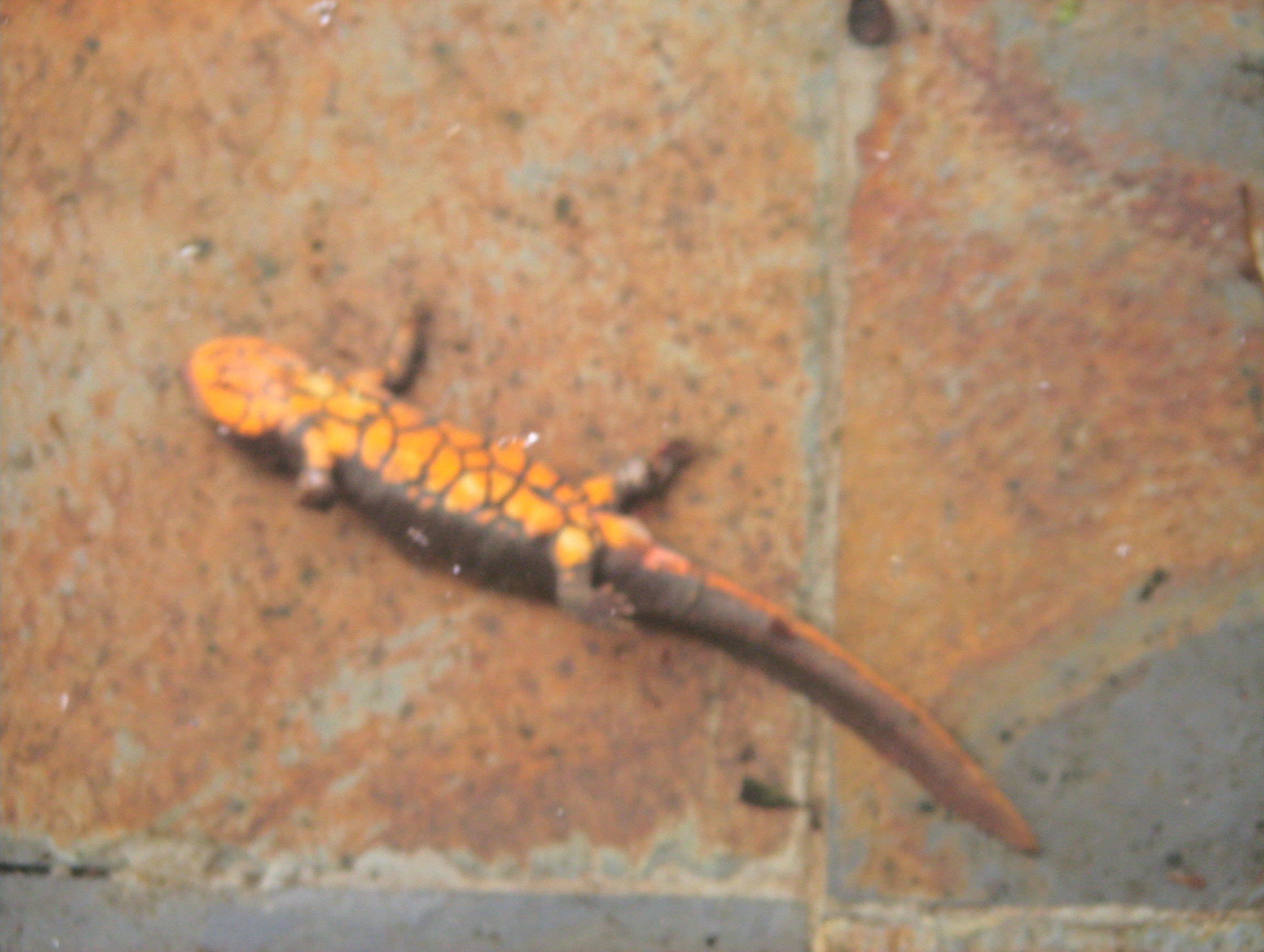 Paramesotriton_deloustali